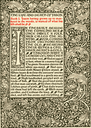 page du livre ,The Life and Death of Jason: opening page of text.